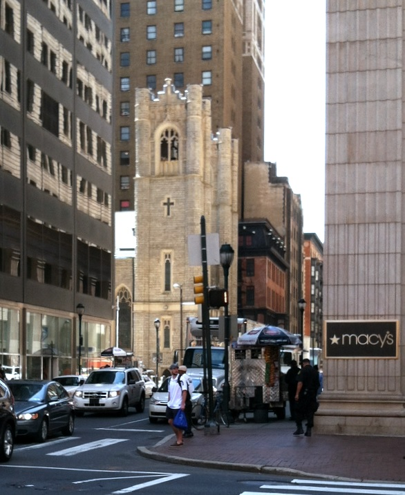 Exterior of St. John the Evangelist Catholic Church, 13th and Market Sts. in Philadelphia, PA, showing the mercantile nature of the surrounding neighborhood.